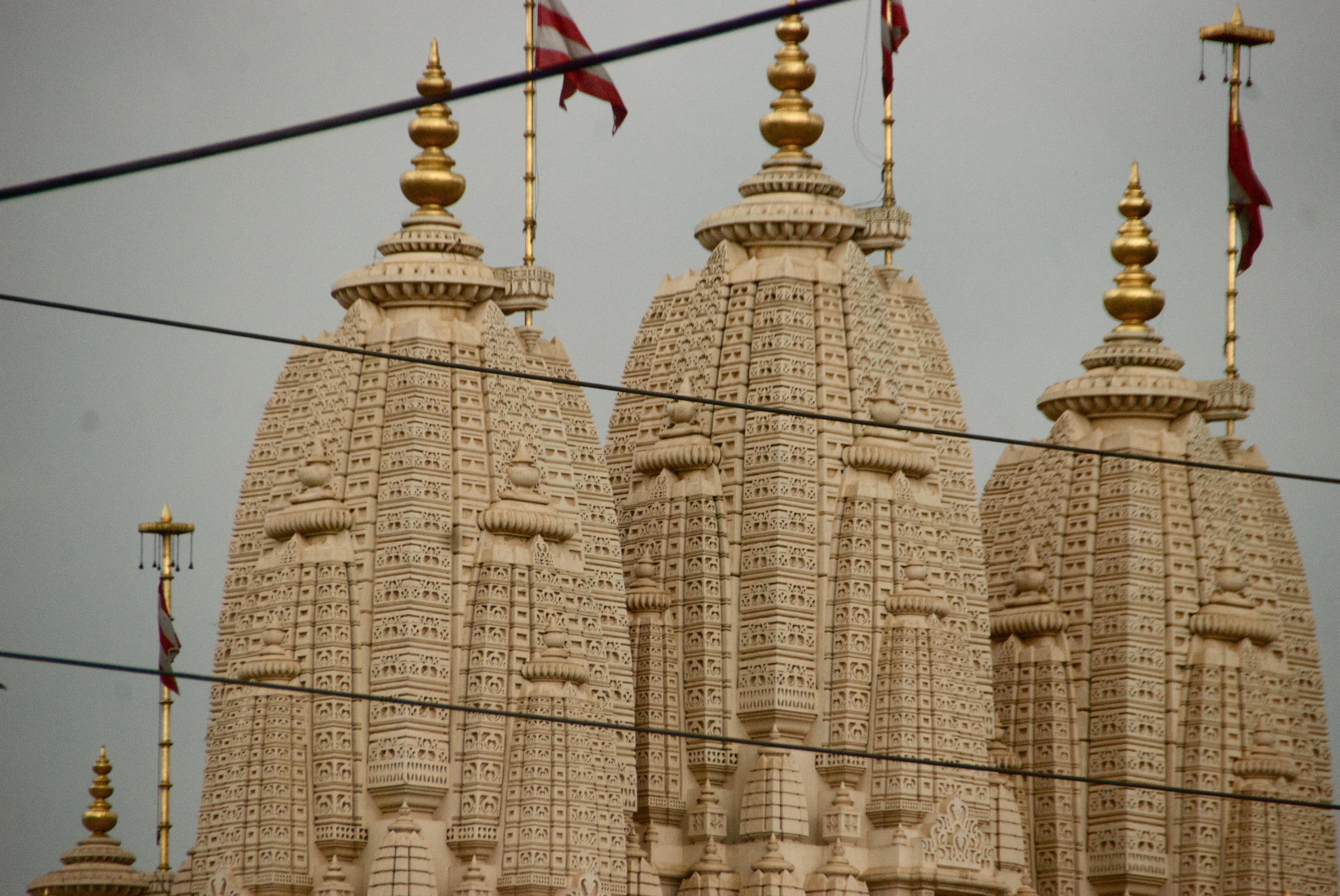 Spires of a Hindu temple in Kenyan capital Africa